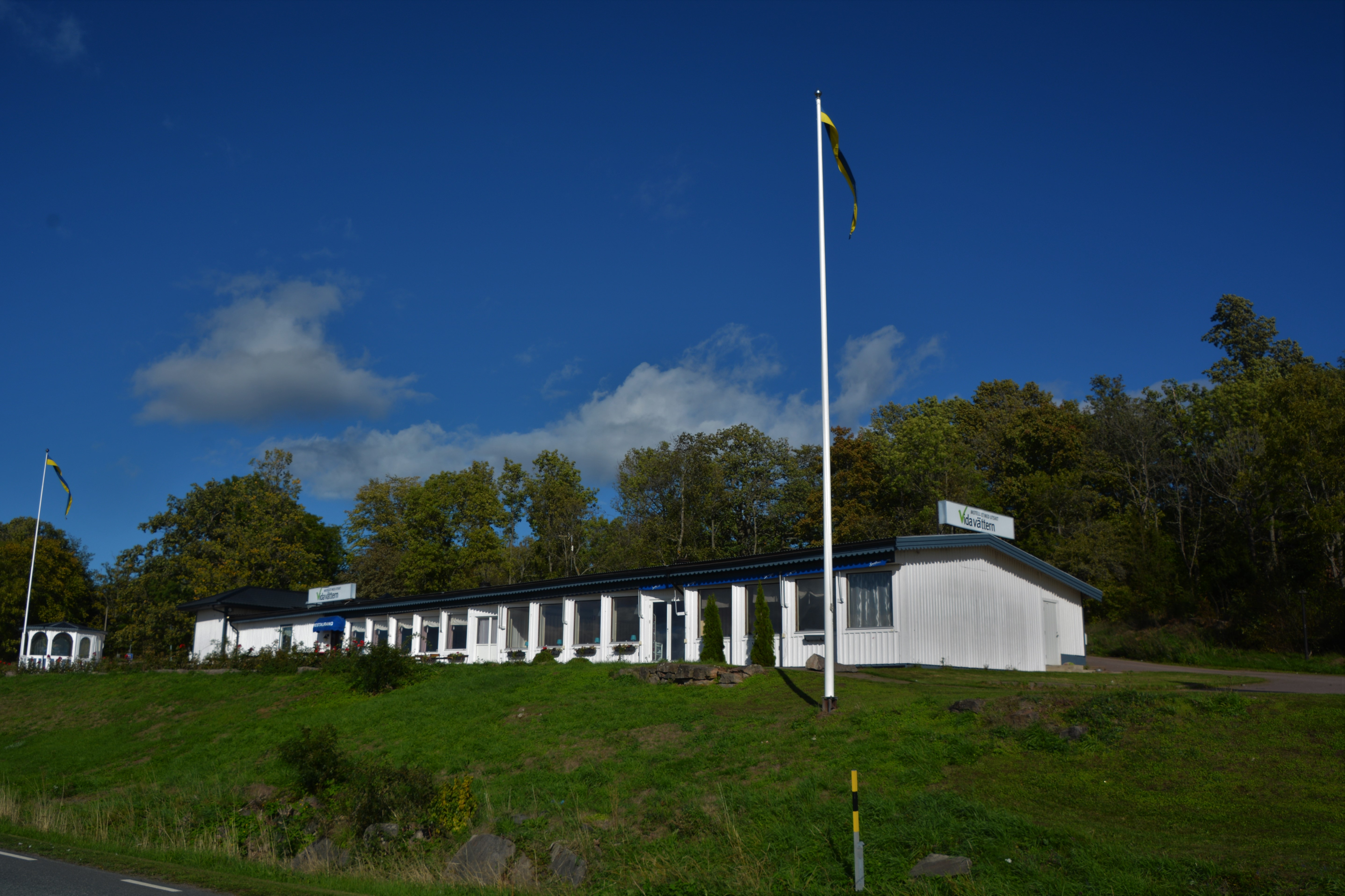 Motell Vida Vättern, Ödeshögs kommun